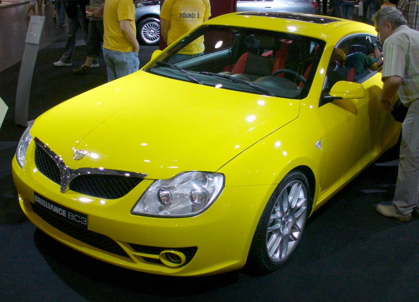 Brilliance BC3